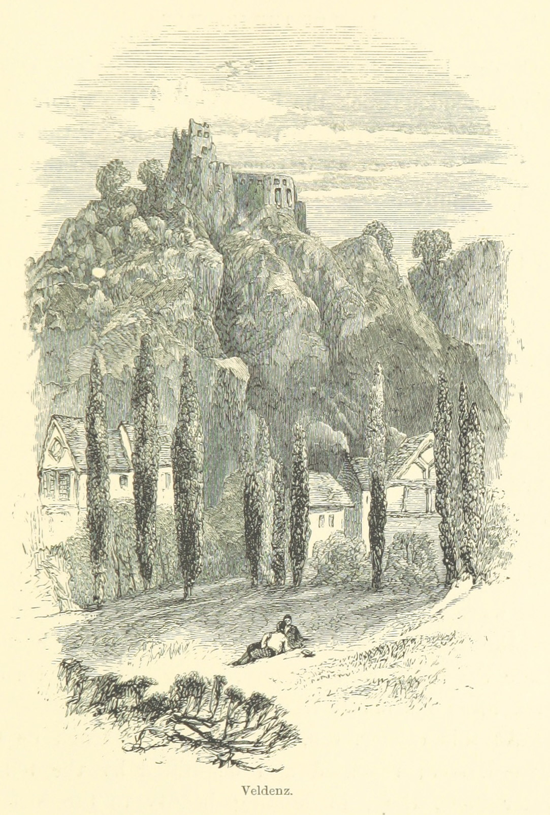 Thalveldenz with Veldenz Castle. Romanticizing representation from the tourist travel report by the British Octavius Rooke